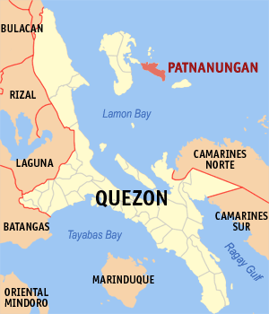 Map of Quezon showing the location of Patnanungan